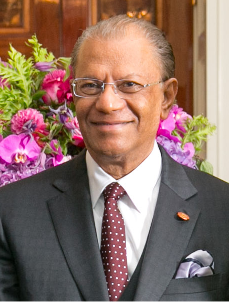 Navin Ramgoolam